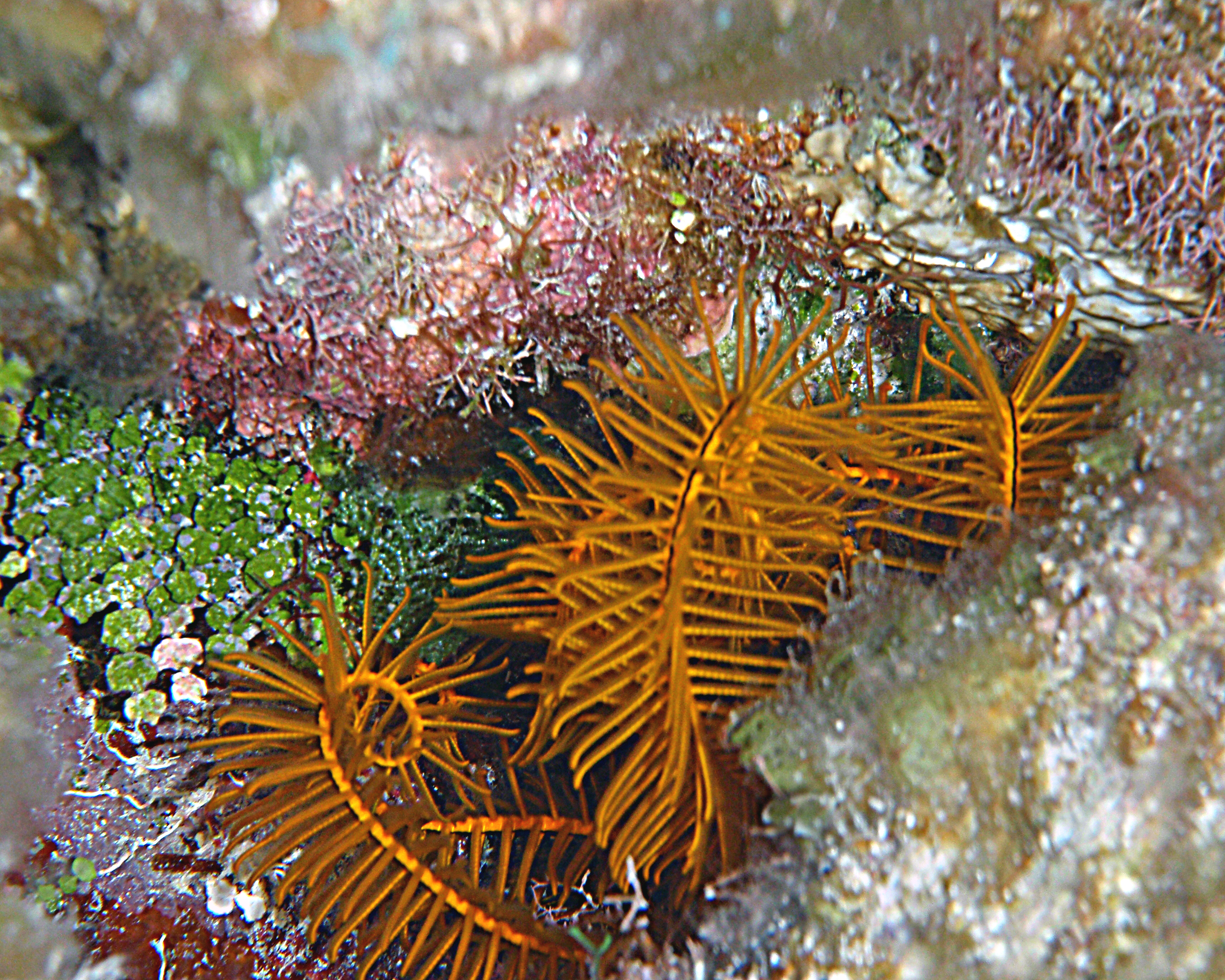 Davidaster rubiginosa (golden crinoid) (San Salvador Island, Bahamas)